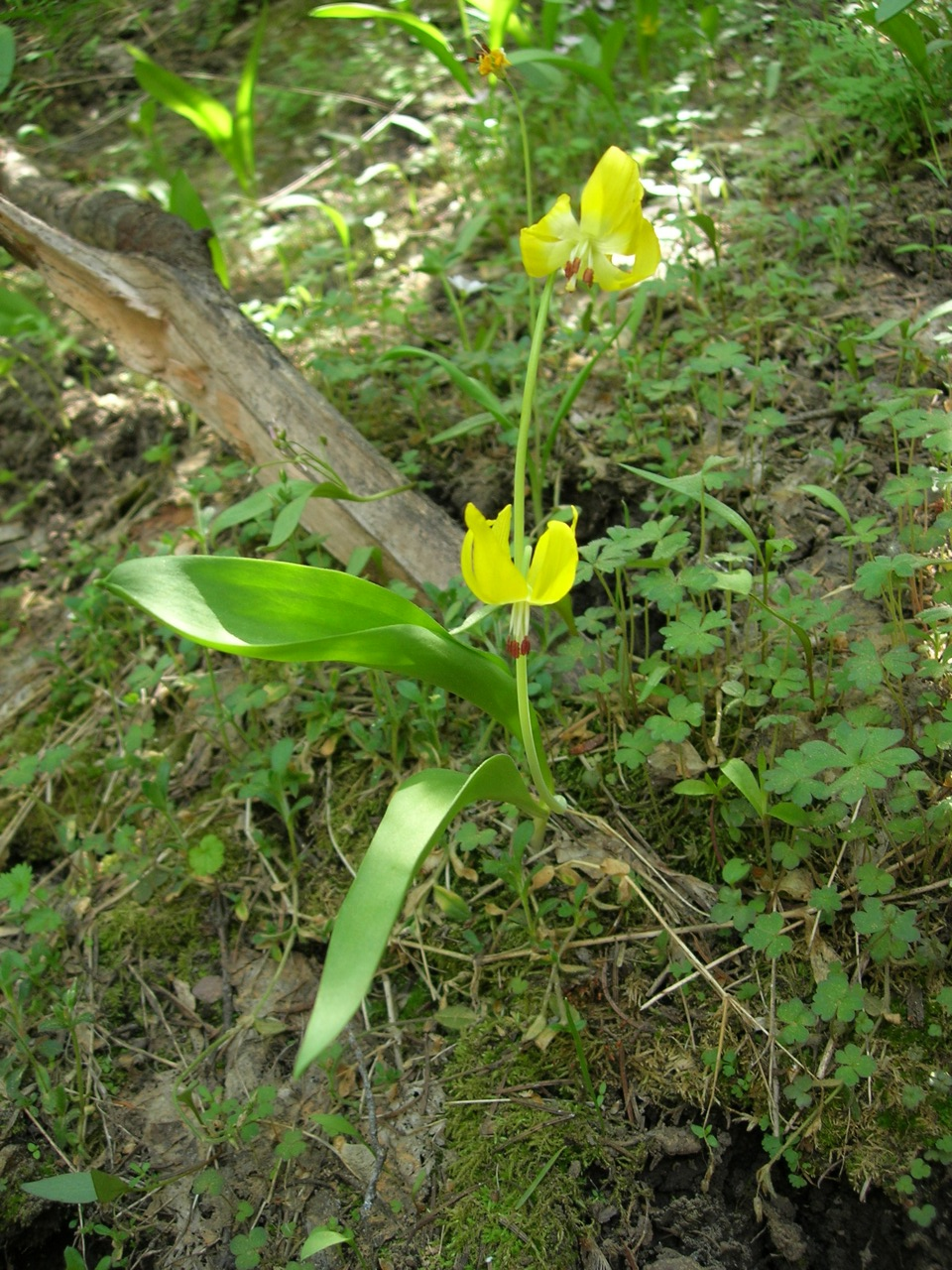 Erythronium grandiflorum in the Liliaceae develops from corms